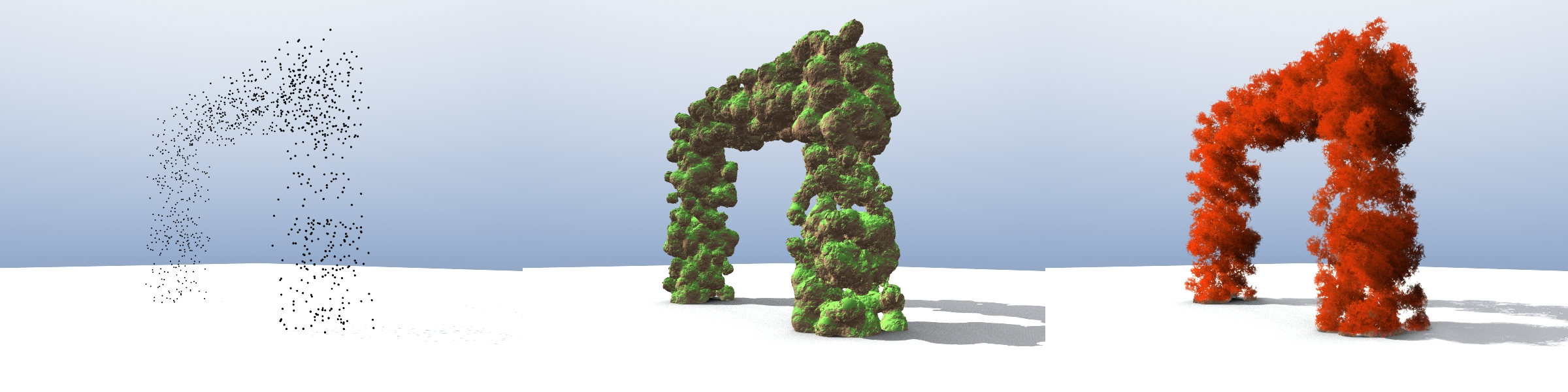 example of 3D modeling through Voxel